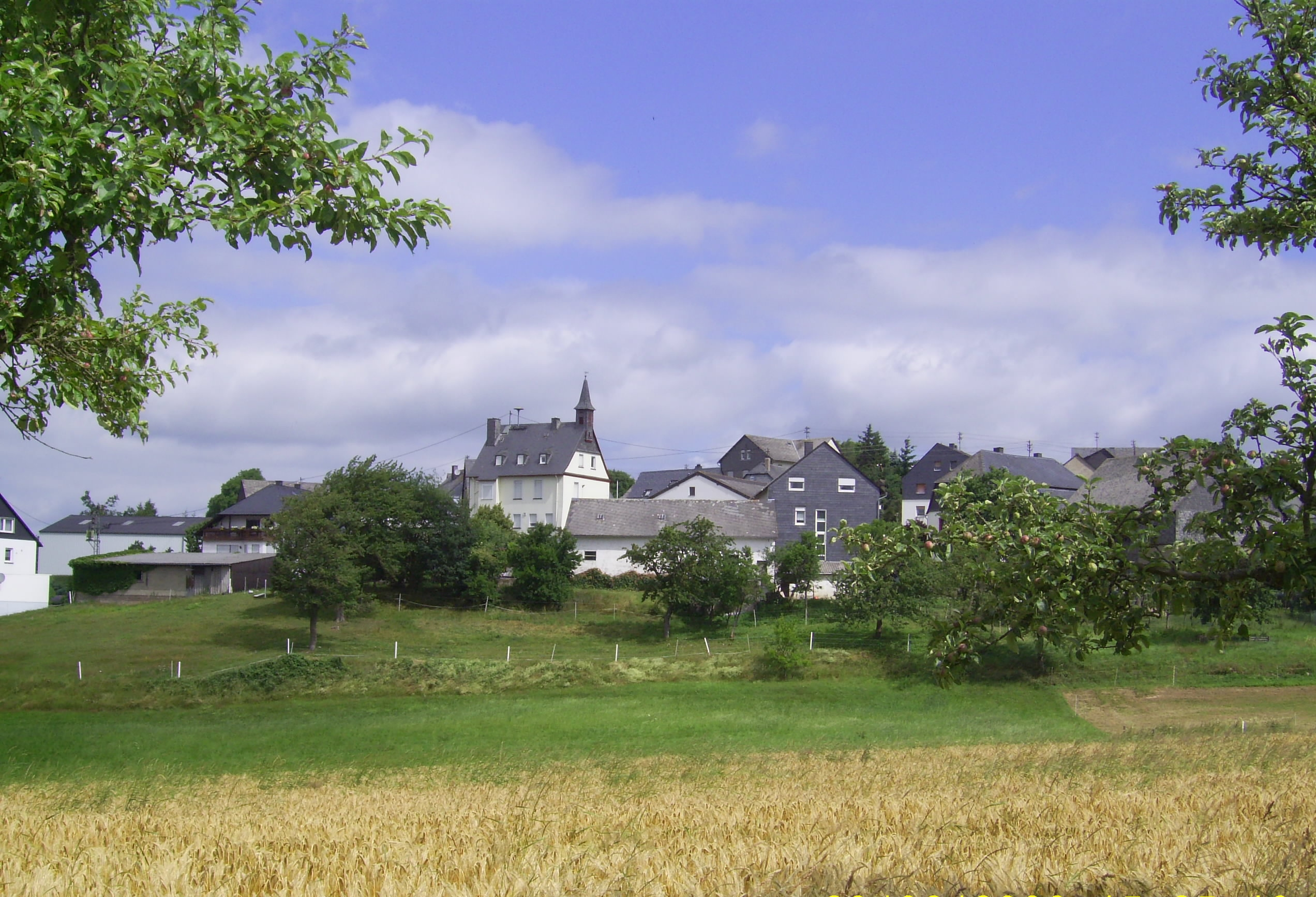 Village Metzenhausen in the Hunsrück landscape, Germany.